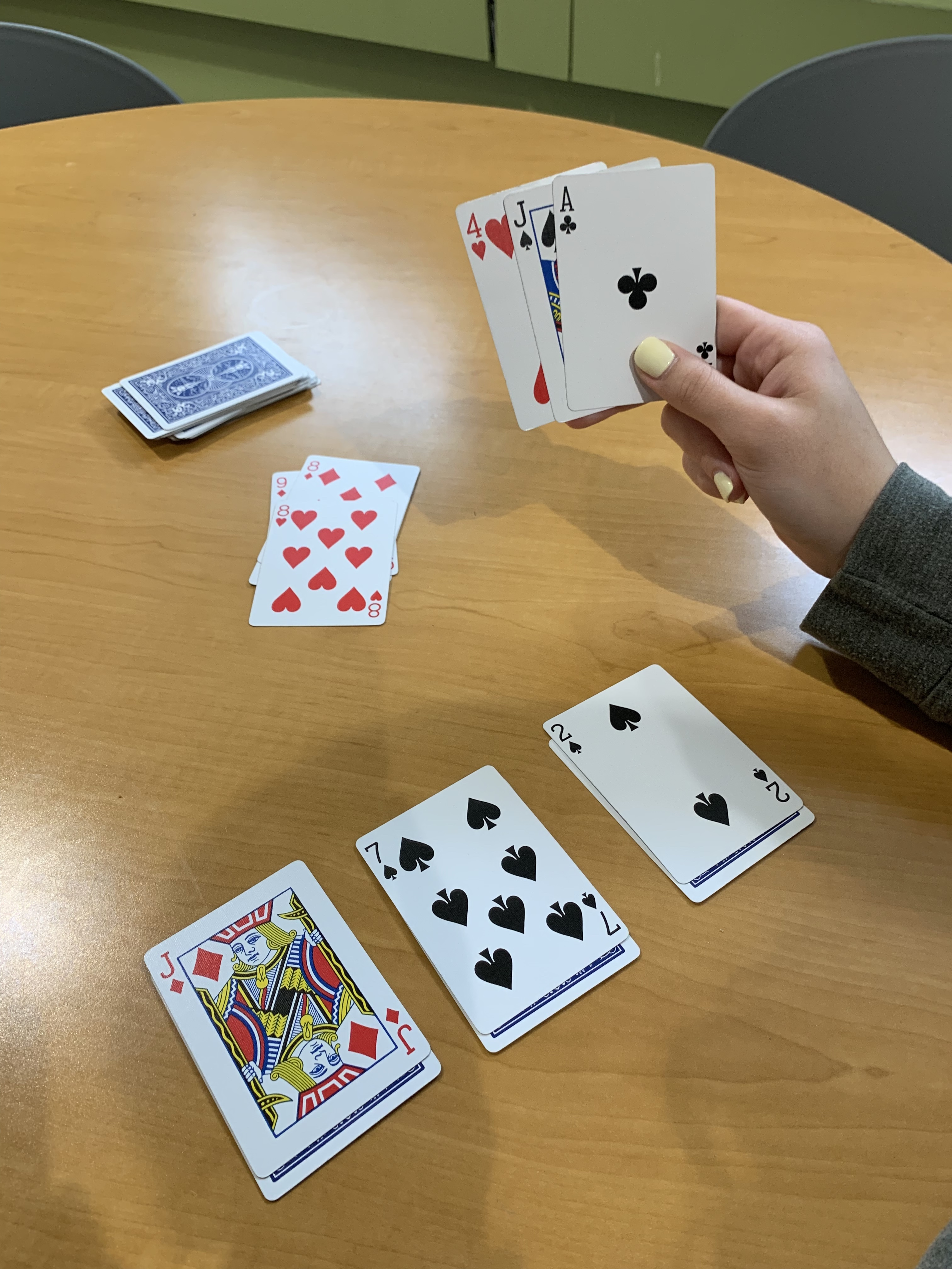 A player's hand in the game shithead, with the pile in the middle of the photo.